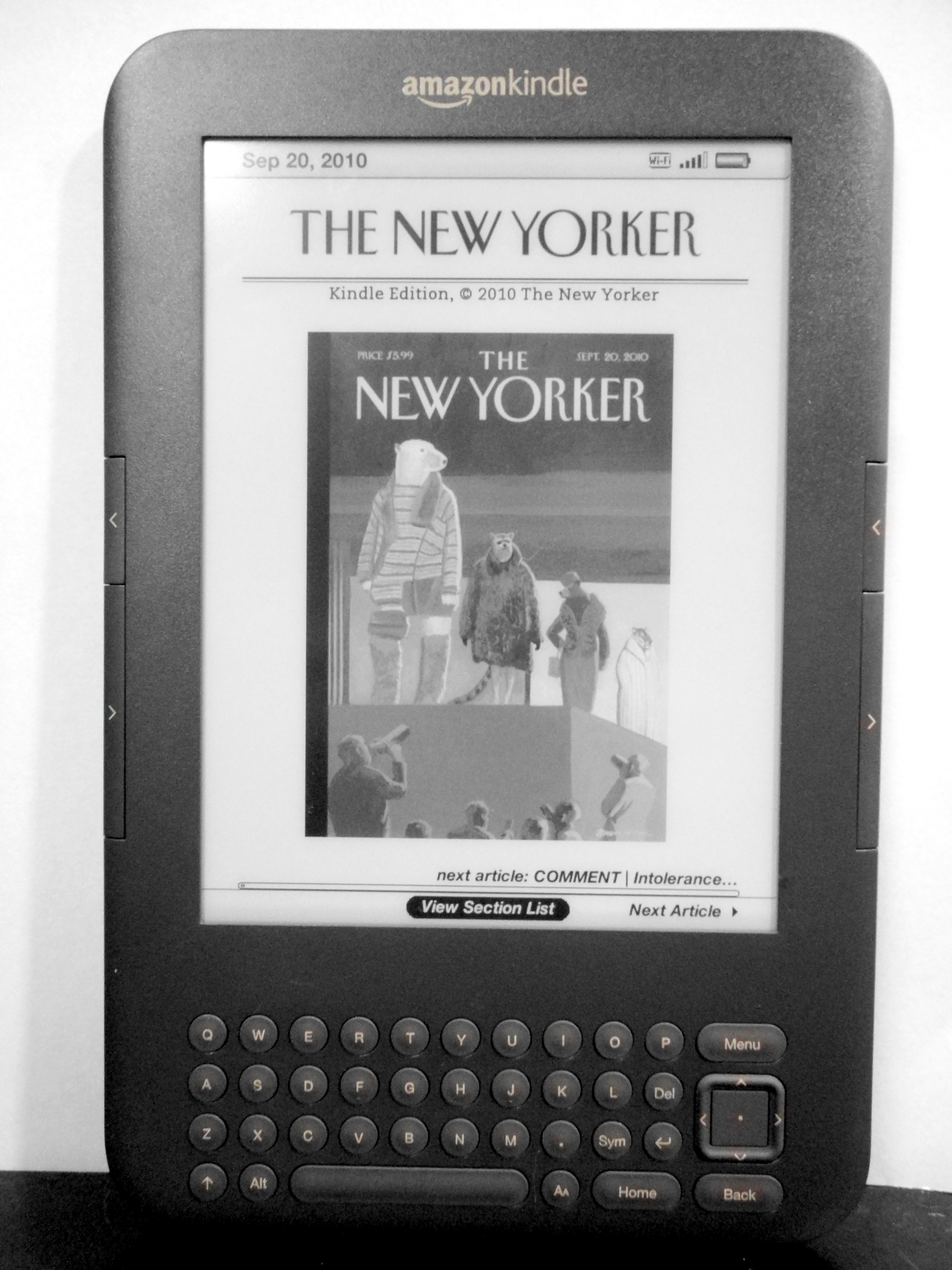 Third generation Amazon Kindle